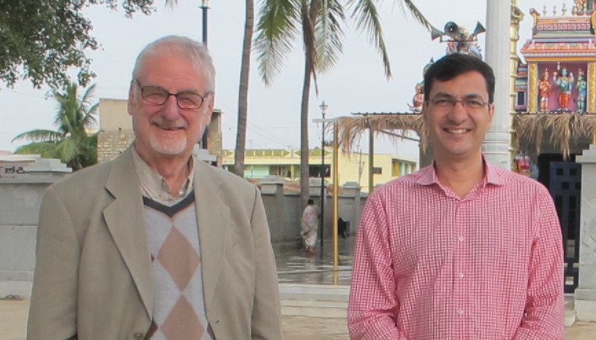 Co-Founder of the European Mentoring and Coaching Council ("EMCC"), Sir John Whitmore with an active member of the EMCC and Author, Nigel Cumberland. Together in India in June 2013